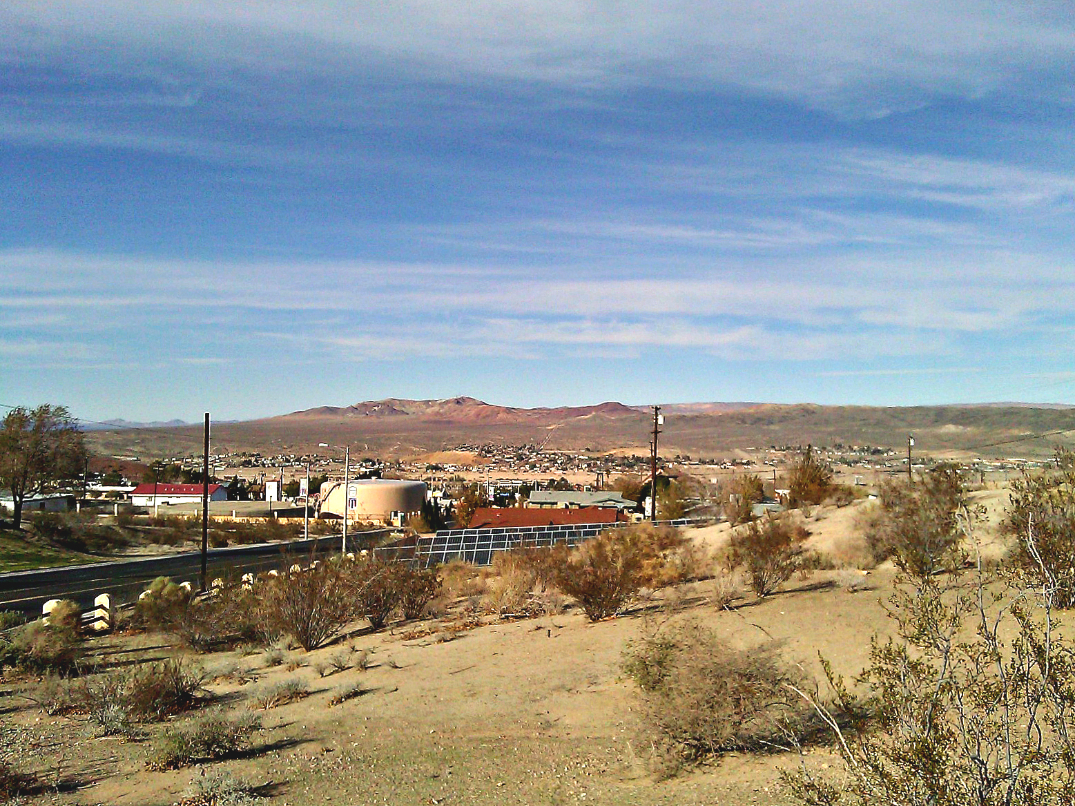 City view of Barstow, California as seen from the Desert Discovery Center on 831 Barstow Road, Barstow, California, view looking northwest.This photograph was taken with an HTC 7 Pro mobile camera and edited (brightness, contrast, roate, sharpness, saturation) using PicMonkey.